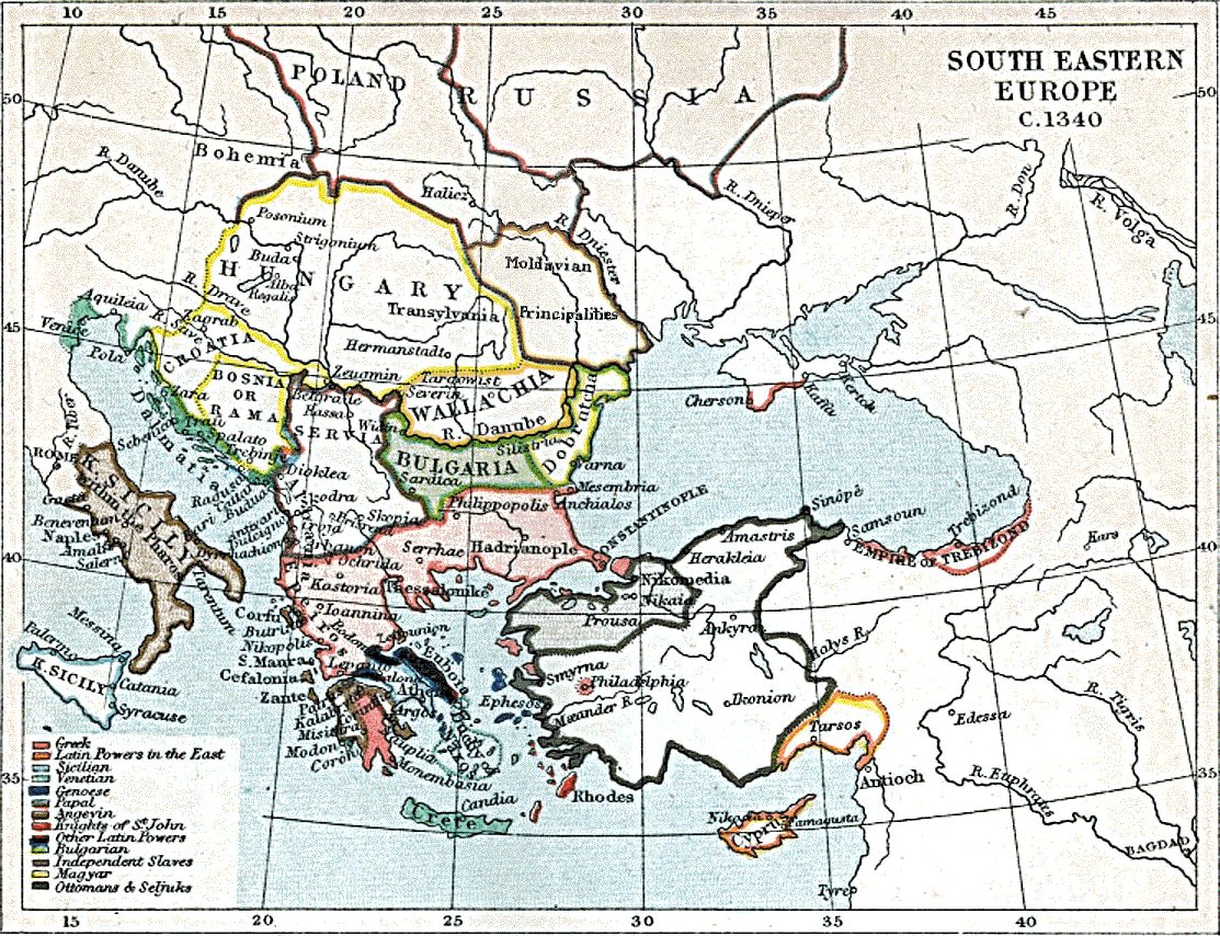 South-East Europe in 1340